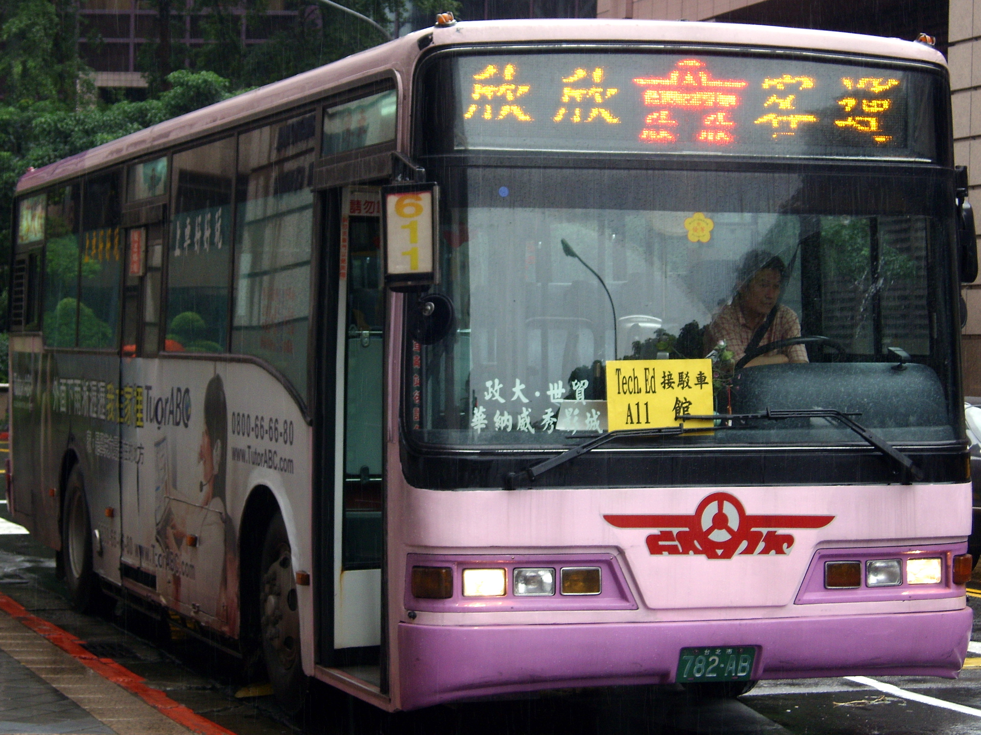 A Shuttle Bus at Microsoft Tech·Ed Taiwan 2007.